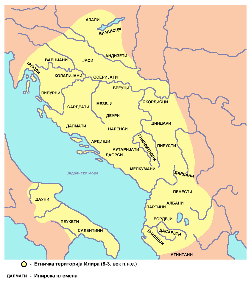 Ethnic territory of the Illyrians and Illyrian tribes (8th-3rd century BC).